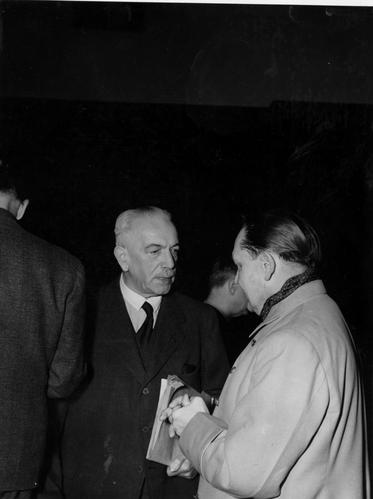 Konstantin von Neurath and Hermann Goering at the Nuremberg War Crimes Trials. Left to right, Konstantin von Neurath and Hermann Goering at the Nuremberg War Crimes Trials. Donor: Robert Jackson.